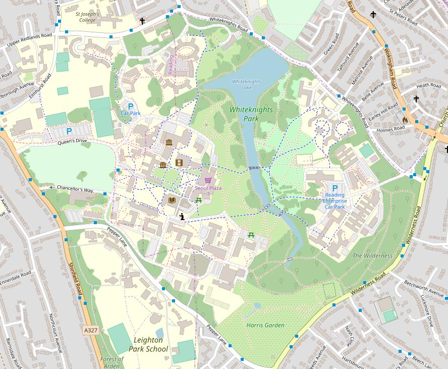 This map may be incomplete, and may contain errors. Don't rely solely on it for navigation.